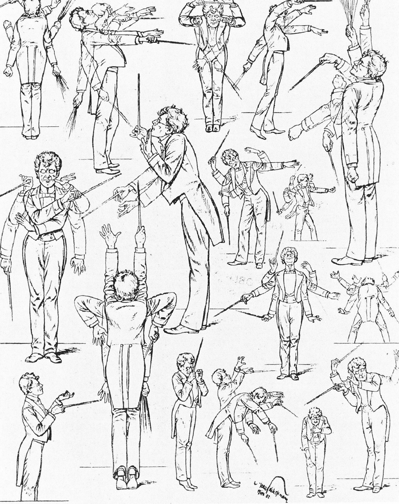 Caricature drawings satirising the conducting style of Gustav Mahler when he was director of the Vienna State Opera, 1897-1907